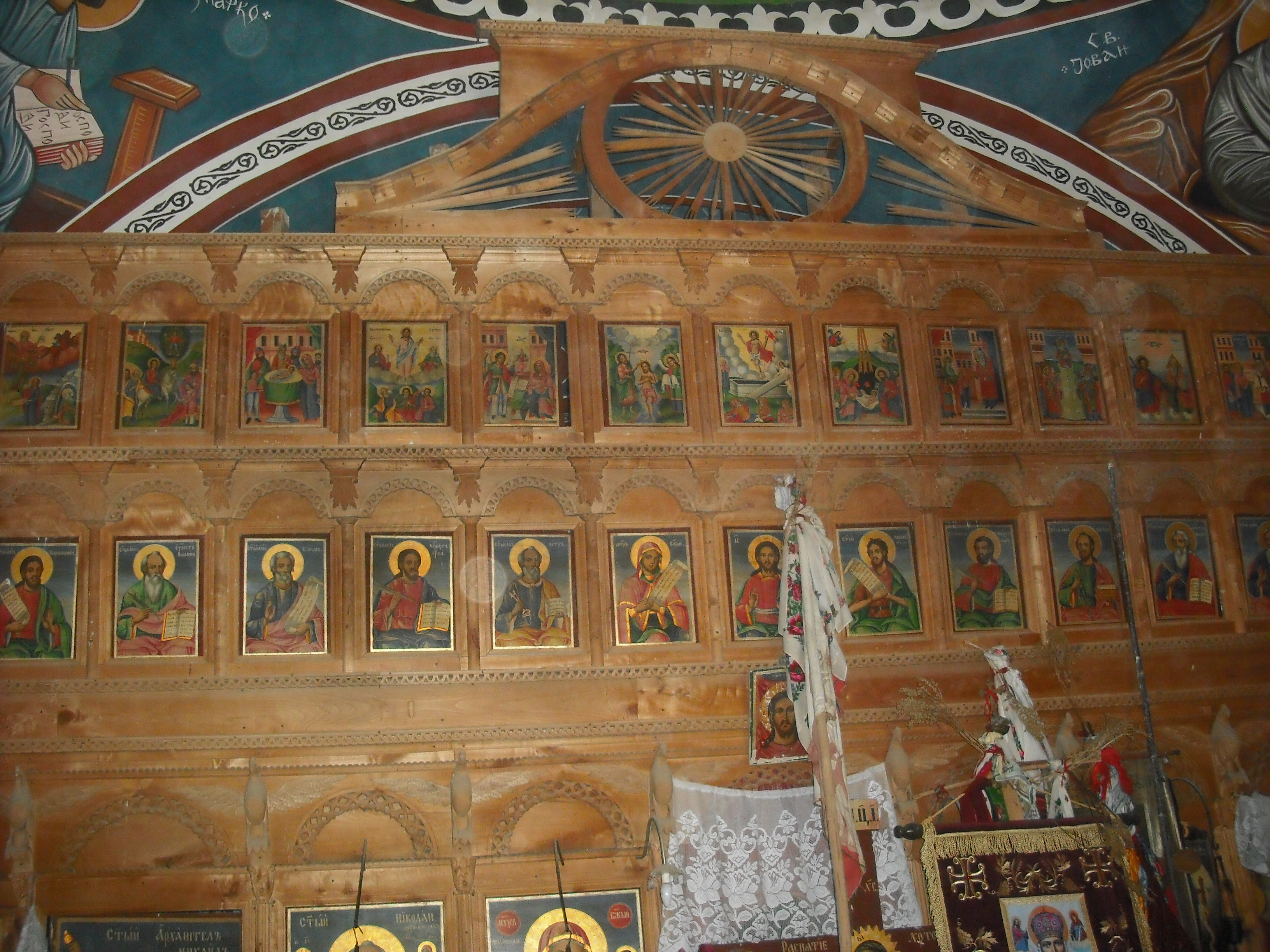 The altar of the church of St Nicholas in Mramorec, the municipality of Debarca, Republic of Macedonia